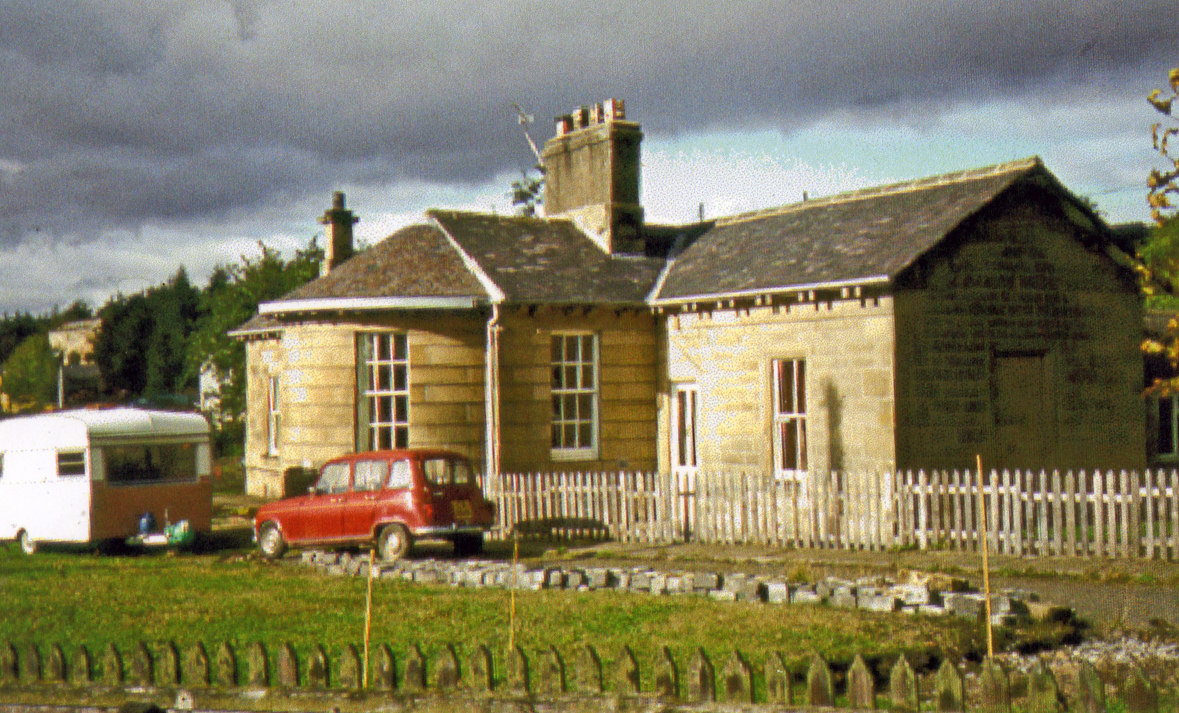 Fourstones station, 1981View NW of exterior: ex-NER Newcastle (left) - Carlisle (right) main line.